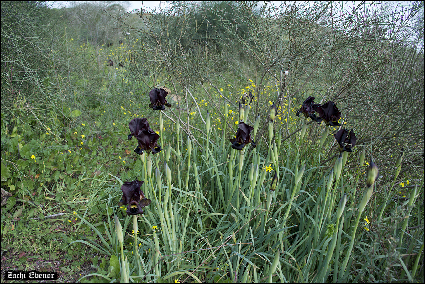 Iris atropurpurea, Ness Ziona Kurkar Hills, Israel